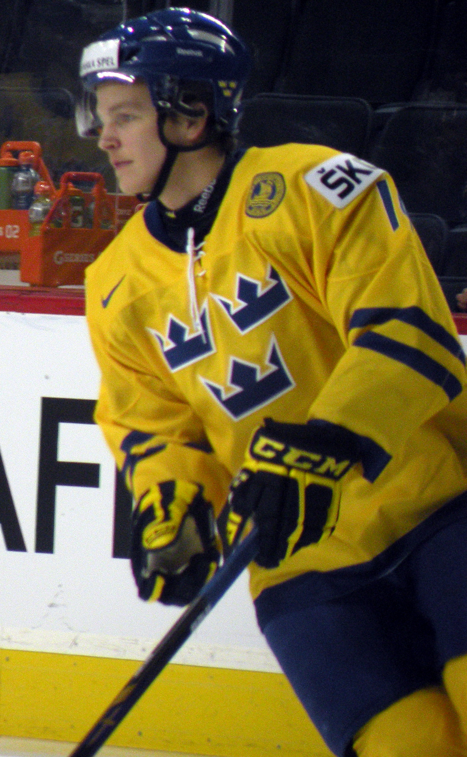 Swedish forward Max Friberg prior to the gold medal game of the 2012 World Junior Hockey Championships at Calgary, Alberta, Canada.